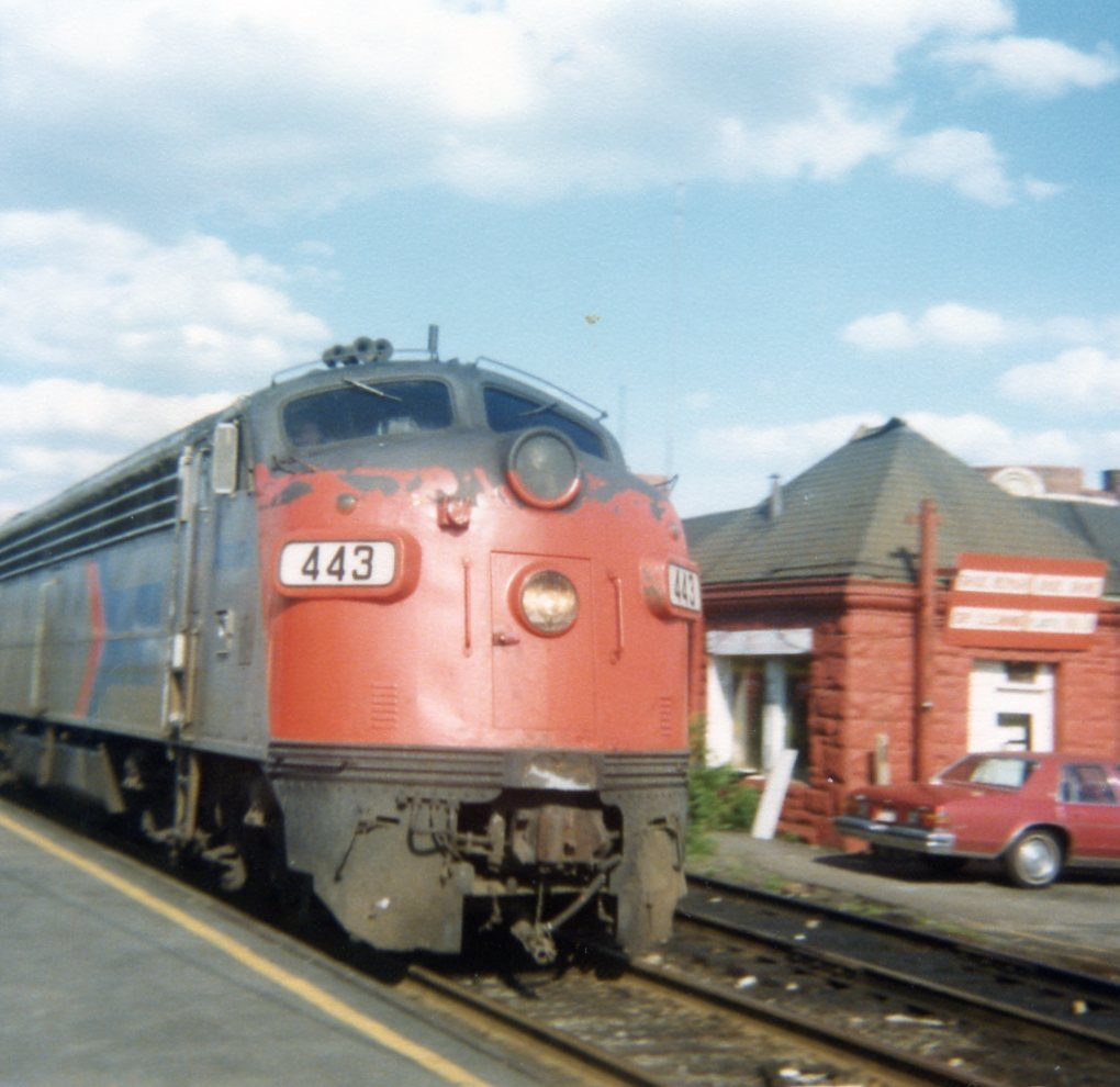 The westbound Lake Shore Limited pulls into Framingham station in Massachusetts in 1977. The taxi stand in the background is the former baggage office.